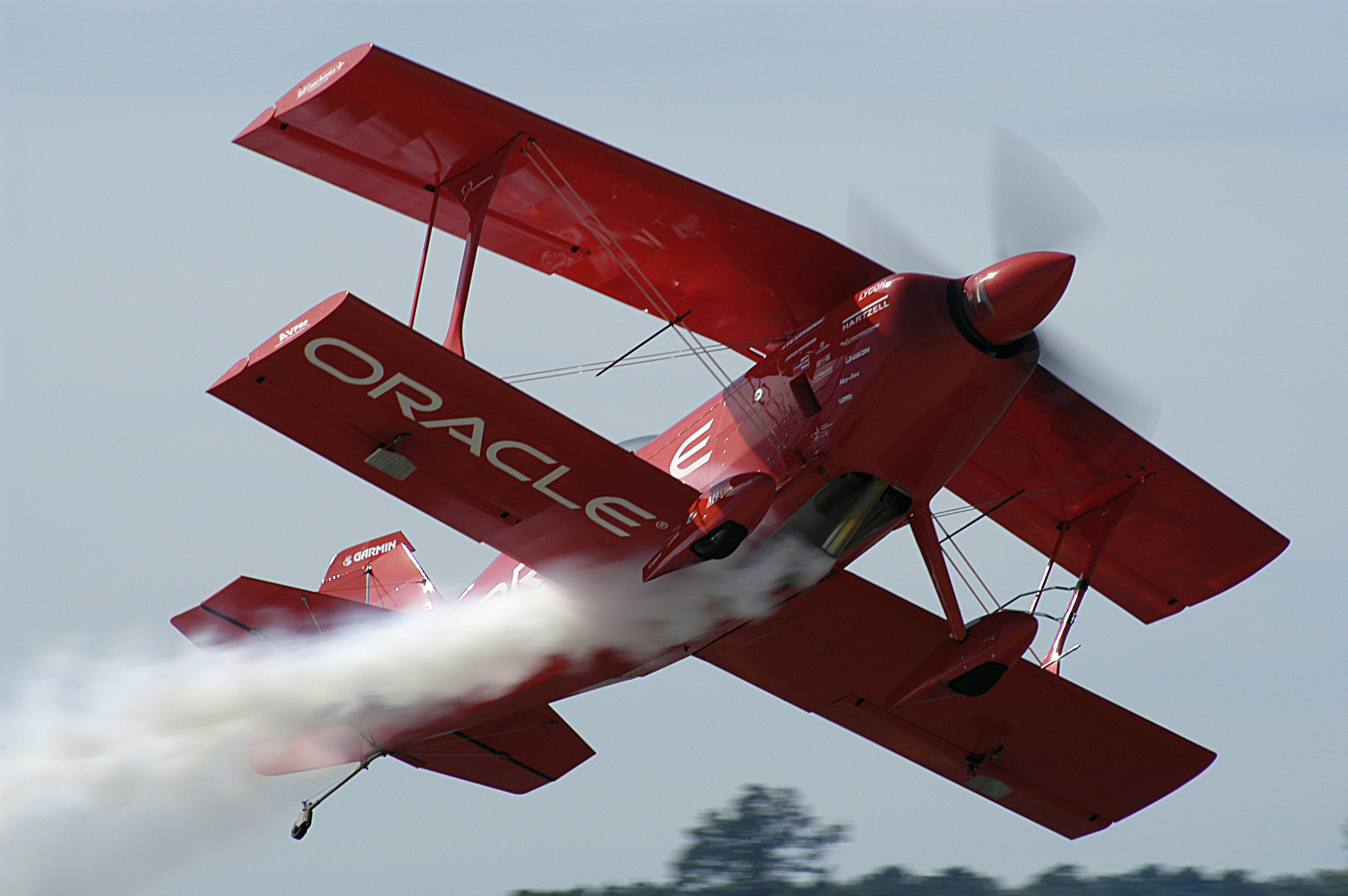 Naval Air Station Oceana, Va. (Sept. 24, 2004) – World-class pilot Sean Tucker flies his Team Oracle (modified Pitts S-2 N260SP) aerobatic aircraft past the crowd at the 2004 "In Pursuit of Liberty," Naval Air Station Oceana Air Show. Twice during his performance, Tucker will fly the aircraft backwards, straight down, tail-first at more than 100 mph. The air show, held Sept. 24-26, showcased civilian and military aircraft from the Nation's armed forces, which provided many flight demonstrations and static displays.